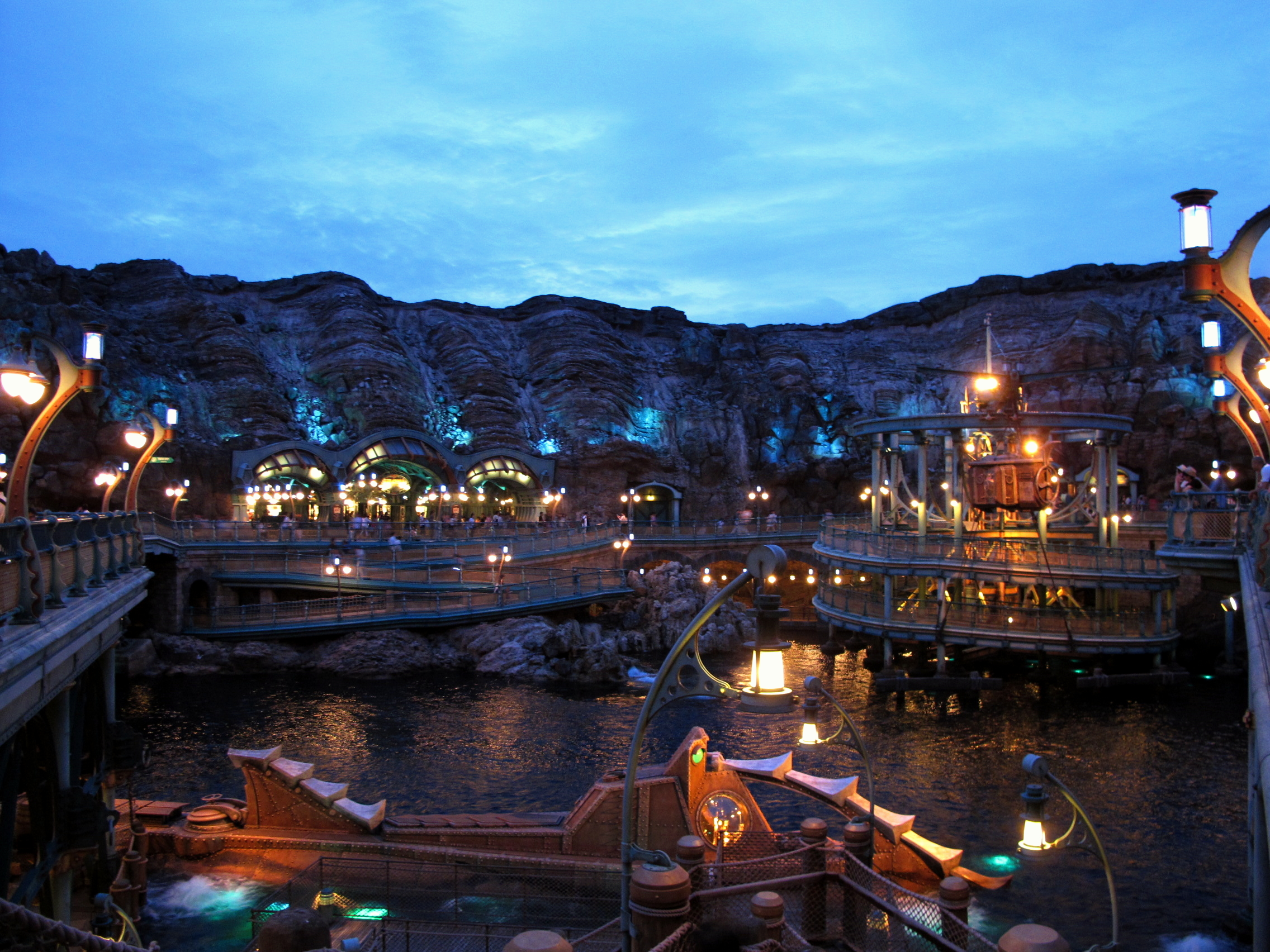 Tokyo DisneySea Mysterious Island Dusk View